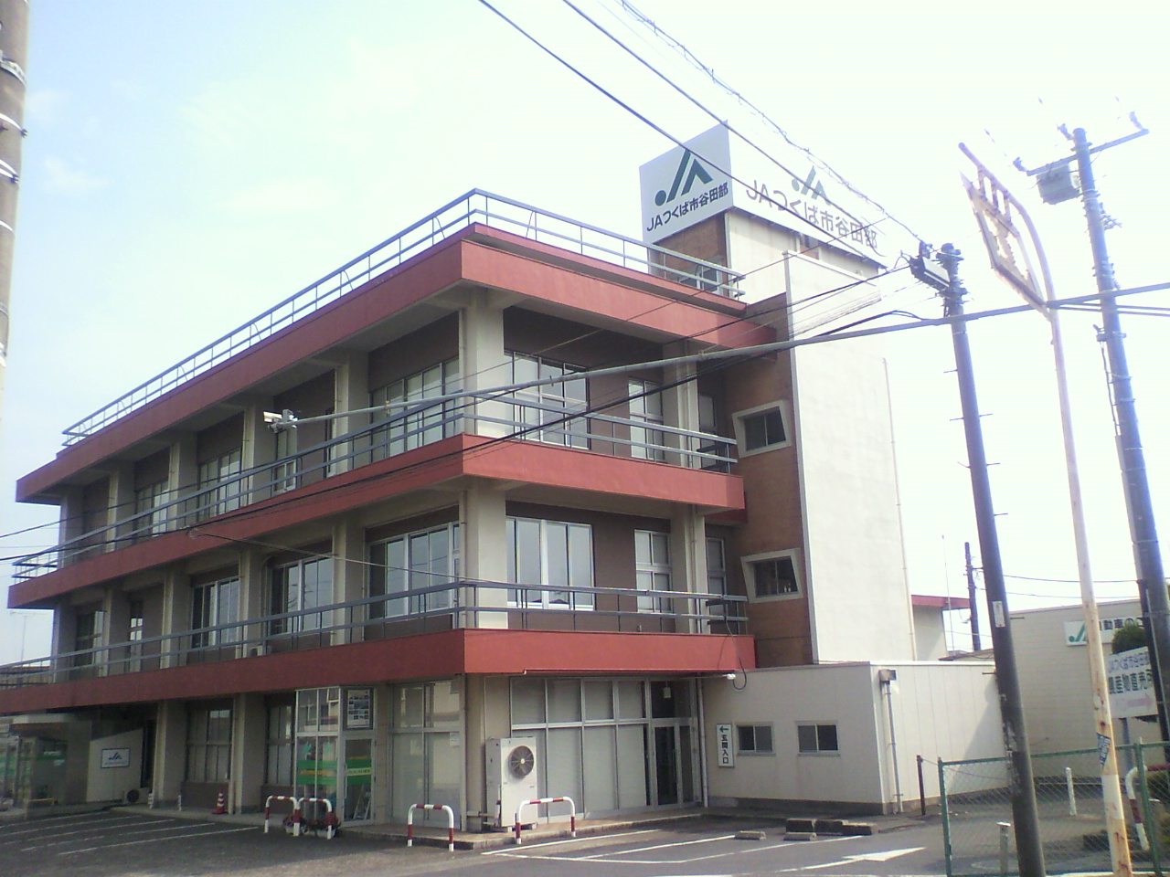 This is the Tsukubashiyatabe Agricultural Cooperative's head office building, which is located in Yatabe, Tsukuba, Ibaraki, Japan.